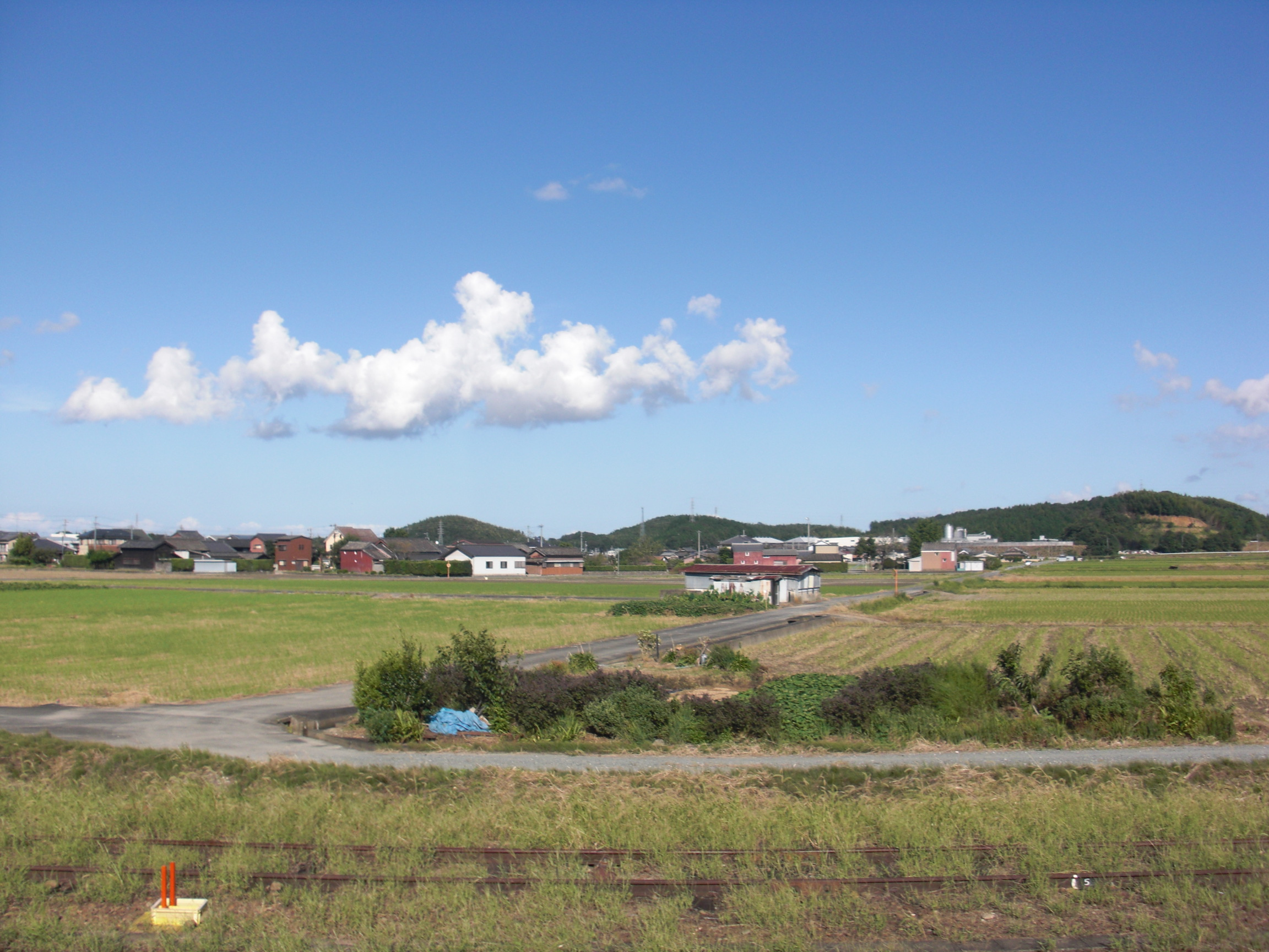 This is a landscape of Taki station east side.